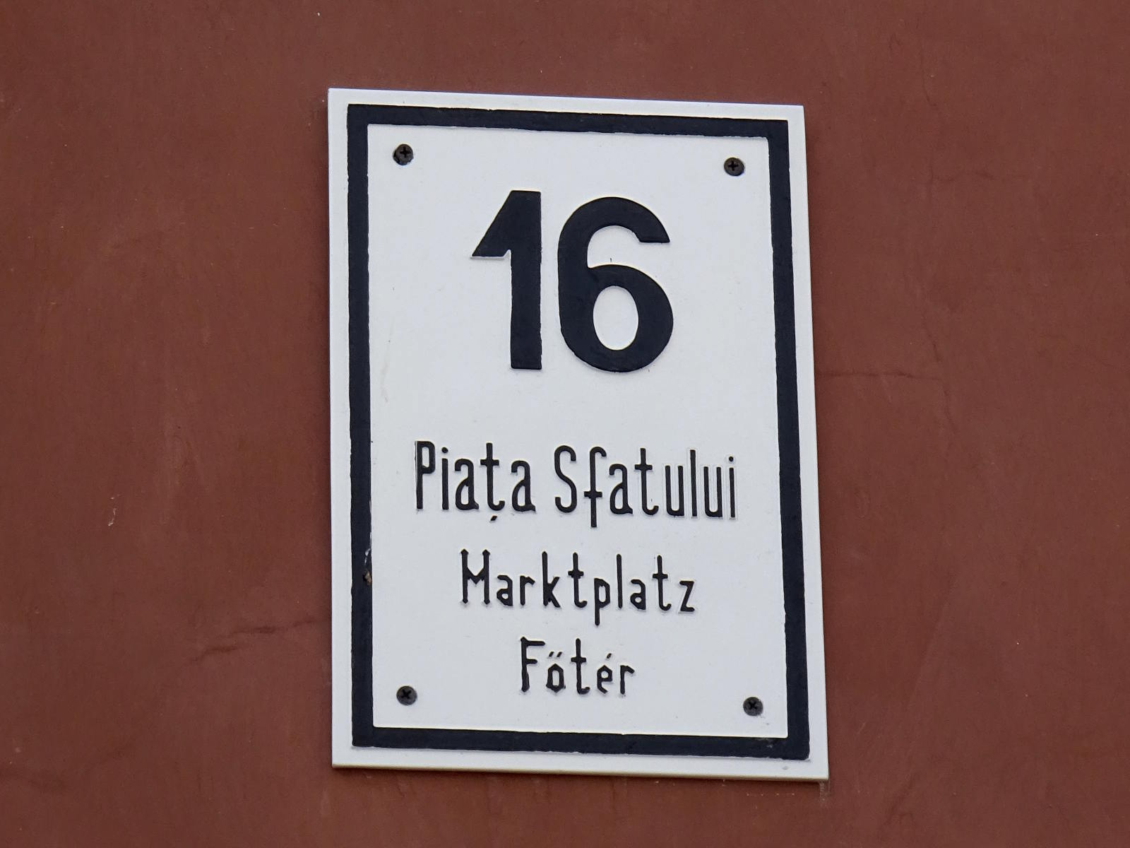 Plaque with housenumber, and name of the plaza in three languages. Brasov, Romania